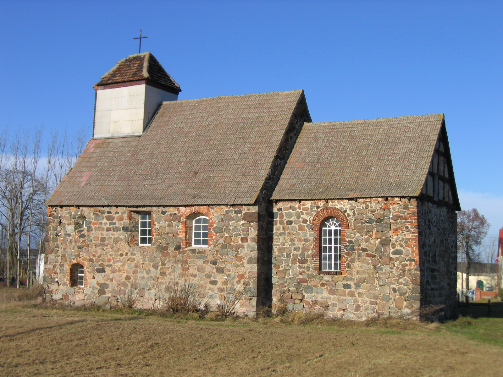 Rural church of Lichterfelde, Gem. Niederer Fläming, Lkr. Teltow-Fläming, Brandenburg, Germany, southside